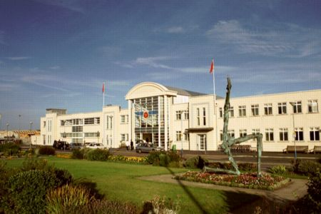 Frontage of Ronaldsway Airport in the Isle of Man